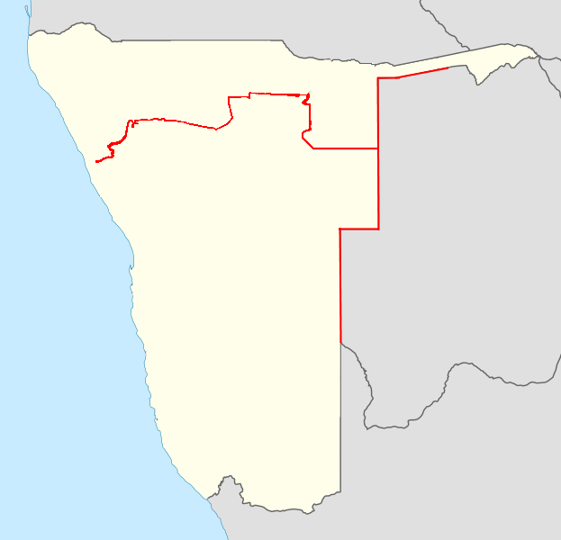 Veterinary Fences in Namibia